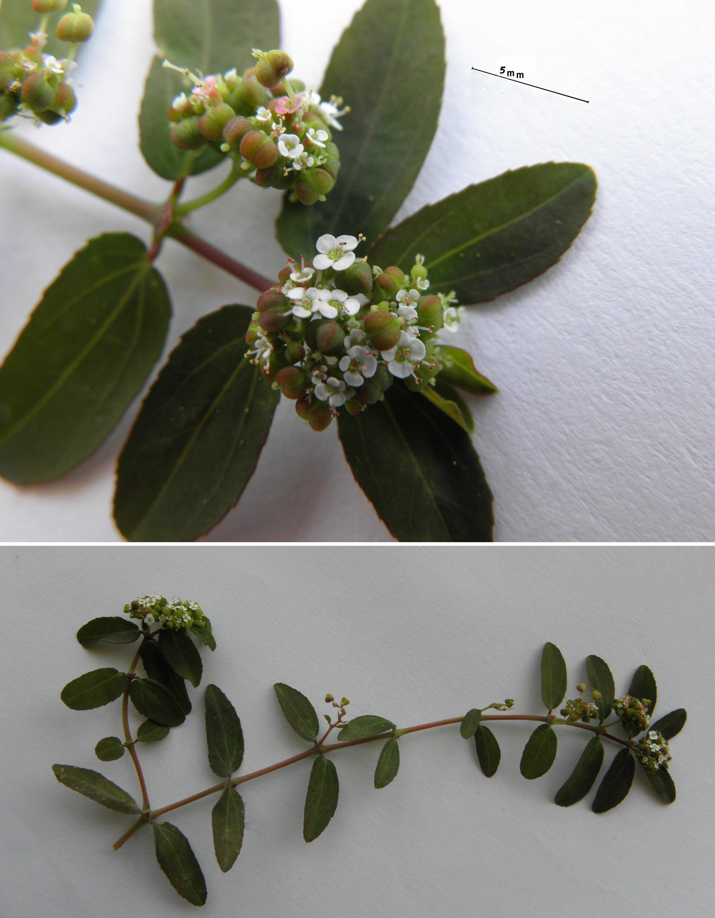 Euphorbia maculata, (Euphorbia mutans), invasive weed in Israel.